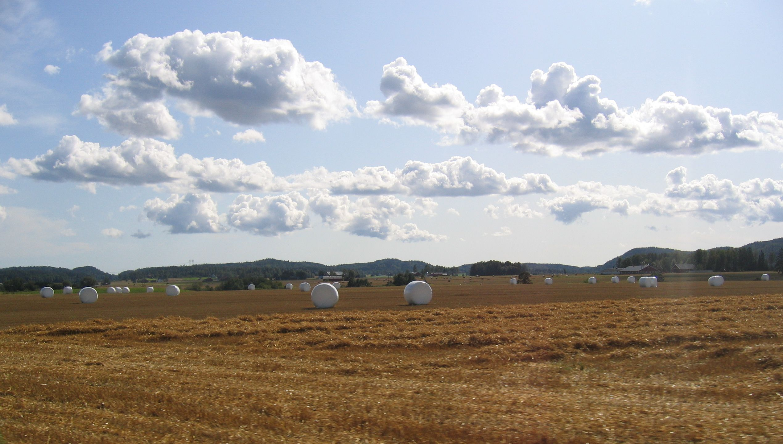 Fields in Re municipallity, Vestfold county in Norway